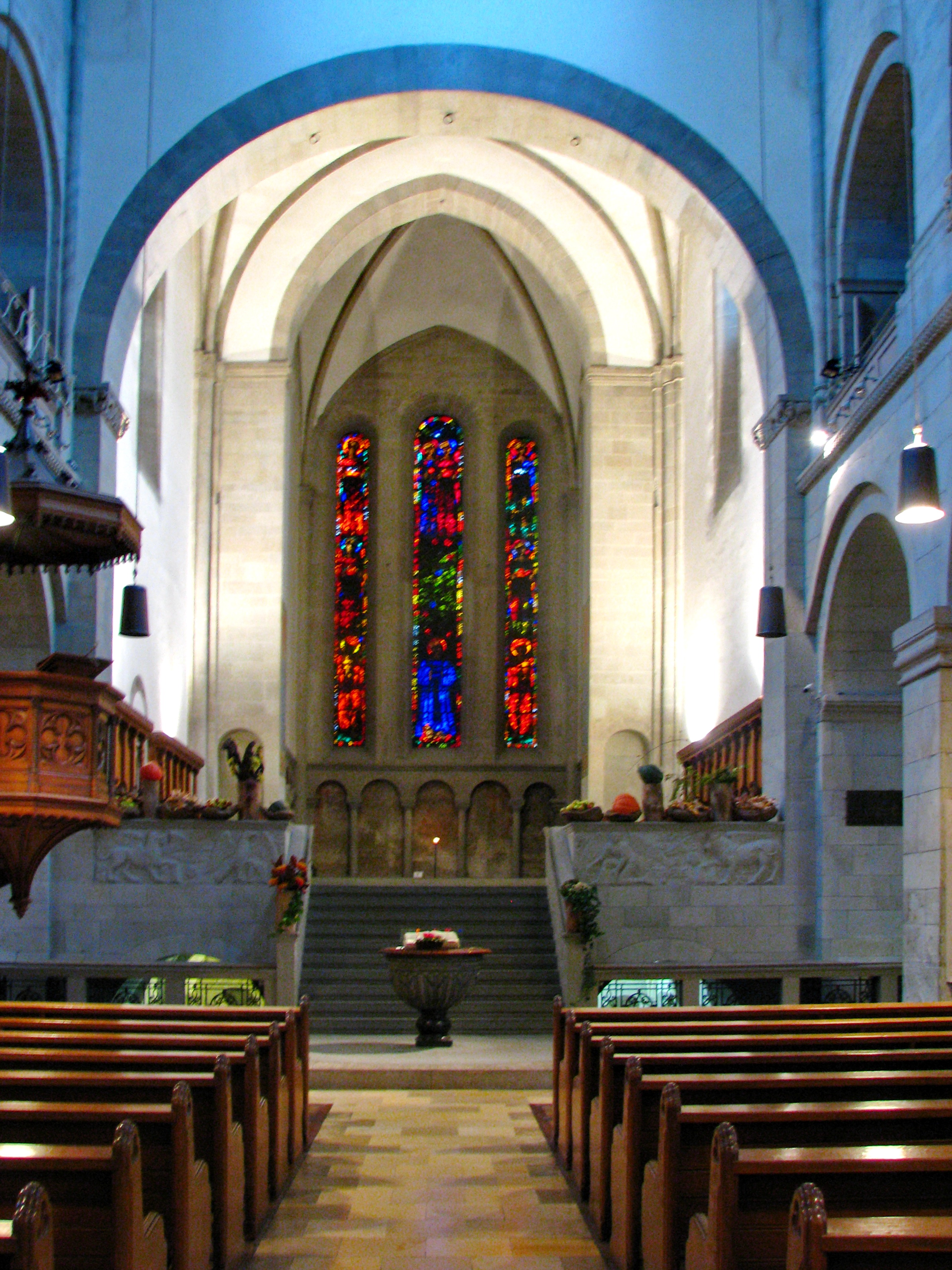 Grossmünster in Zürich (Switzerland) : Nave, sight to the Altar.